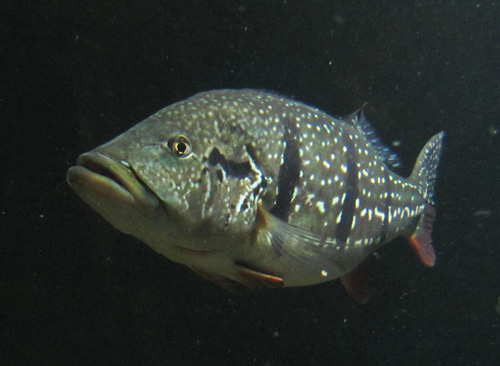 Cichla temensis, a species of cichlid, in Särkänniemi Akvaario, Tampere, Finland